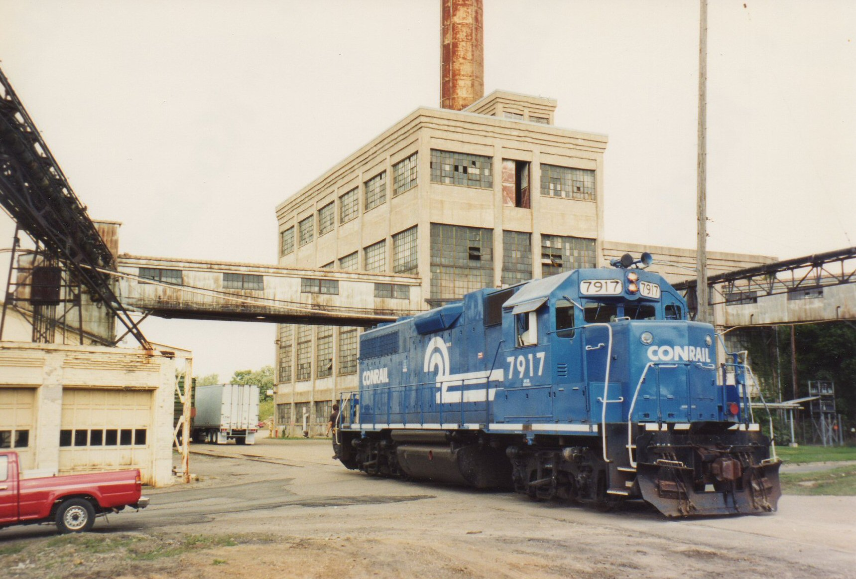 Conrail Railroad switching the Portage Paper Bryant Mill in Kalamazoo, Michigan, USA. The mill power house is behind the locomotive. At this time only Mill D was in operation.